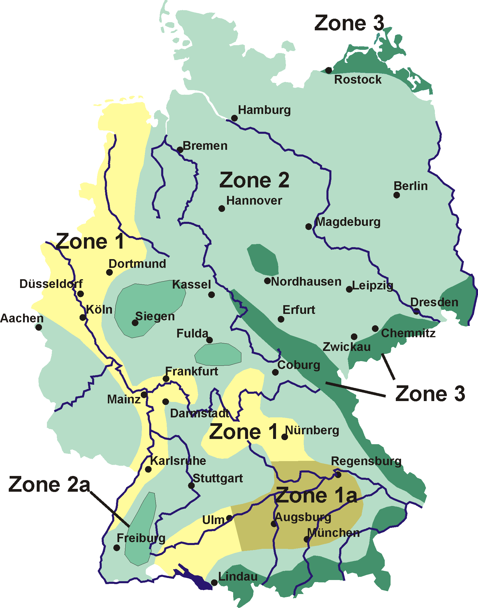 snowload areas of Germany